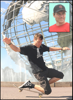 Guenter Mokulys, 11-times Freestyle Skateboarding World Champion performing tuck-knee spacewalk